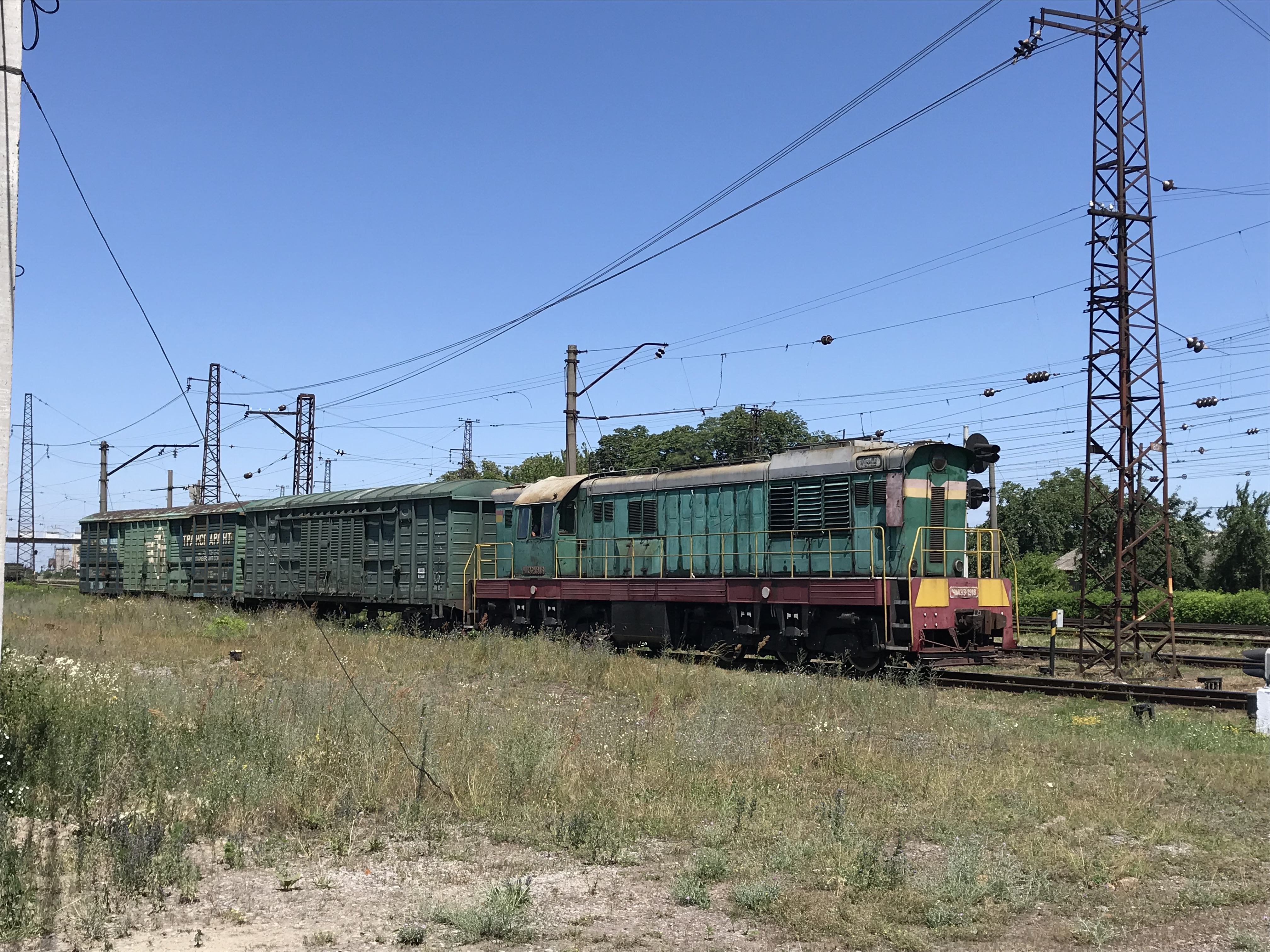 A ChME3 with some goods wagons in Batiovo, Zakarpattia Oblast, Ukraine